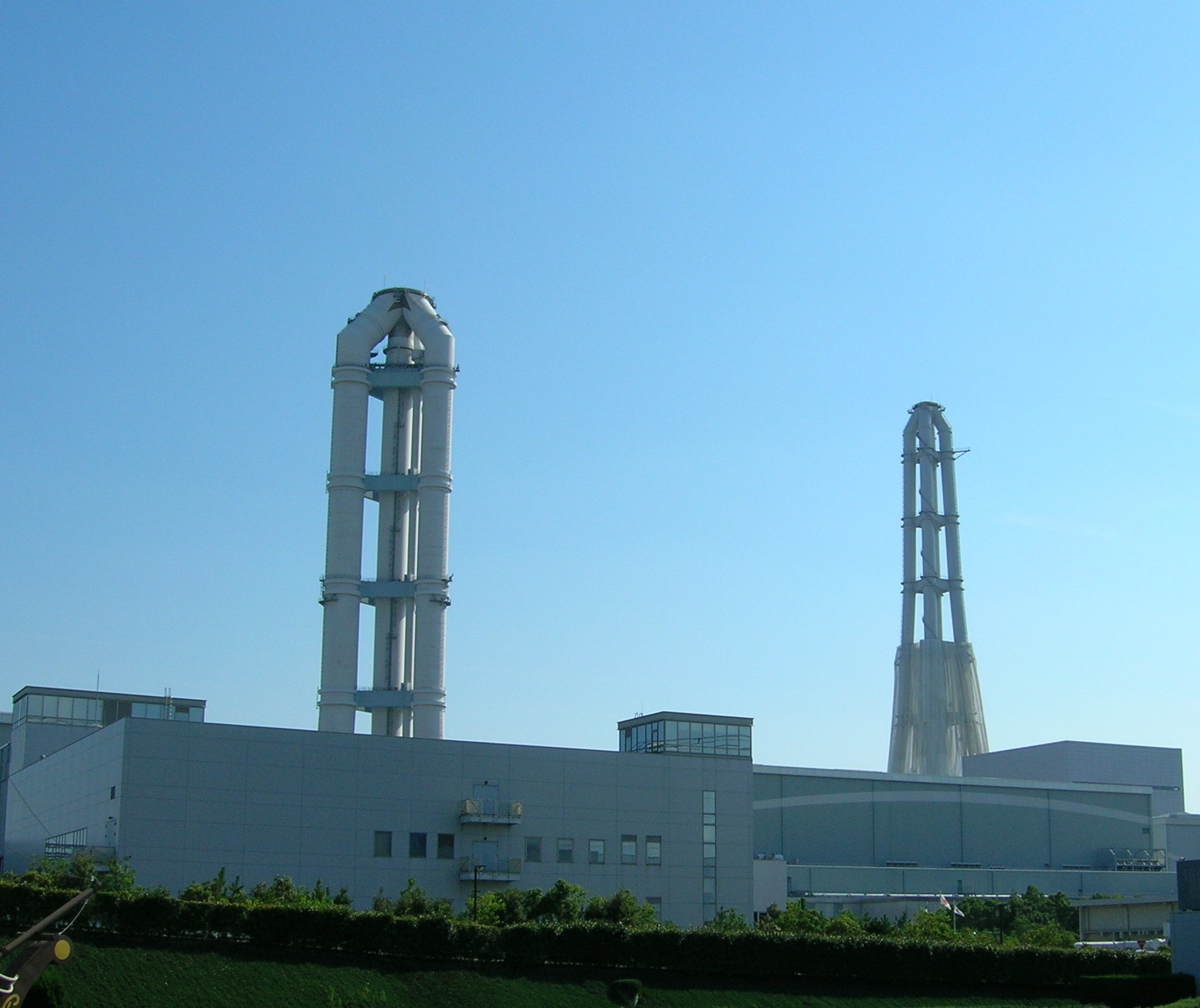 Kawagoe Karyoku Hatsudensho (Kawagoe Thermal Power Plant). Loc: Kawagoe town, Mie distract, Mie Prefecture, Japan. 川越火力発電所 撮影場所 三重県三重郡川越町